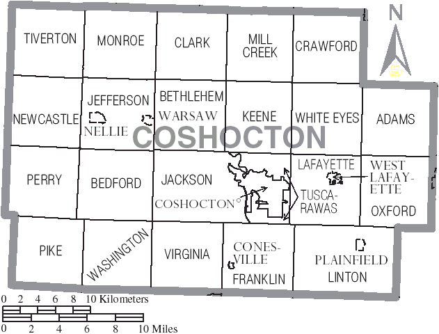 Map of Coshocton County, Ohio, United States with township and municipal boundaries